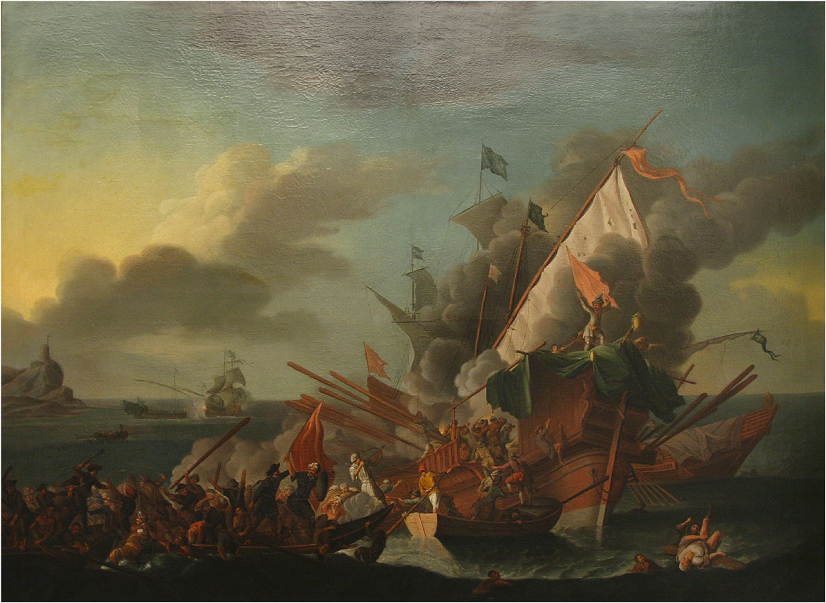 The Battle of Lepanto, 7 October 1571 in closer details.